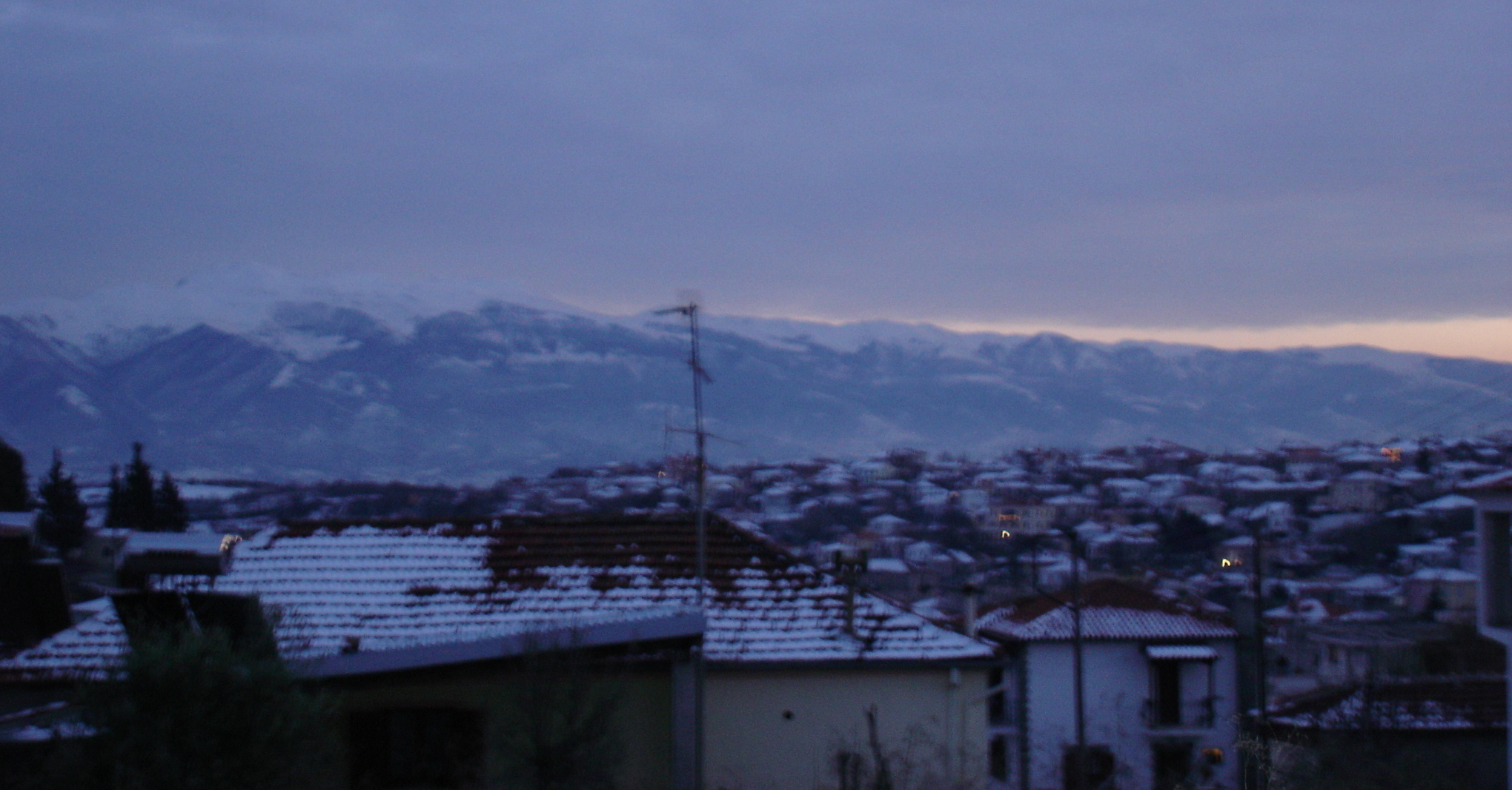 Cold winter evening in Alistrati, Greece.